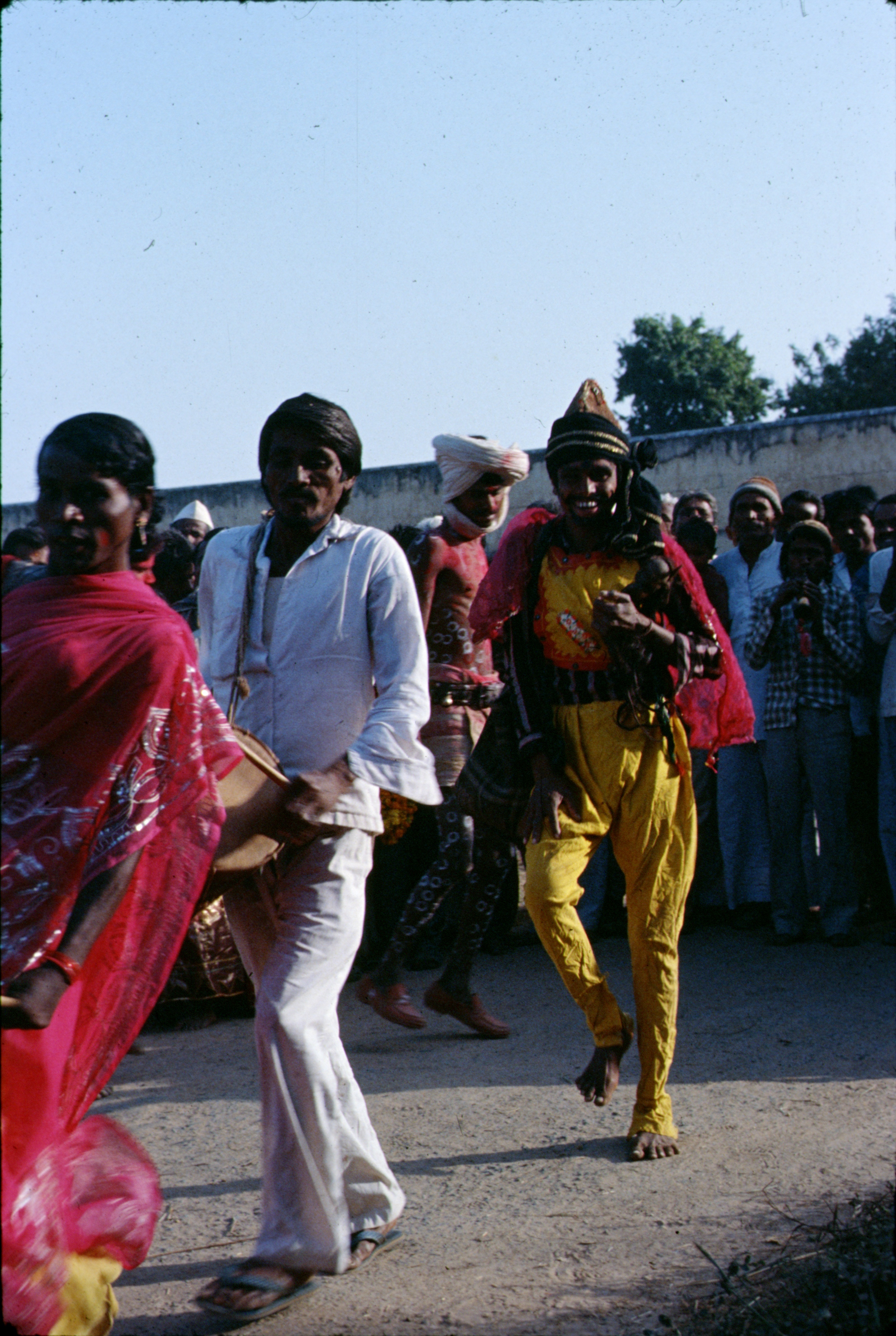 Traditional welcome performance, Mitral, Kheda district, Gujarat